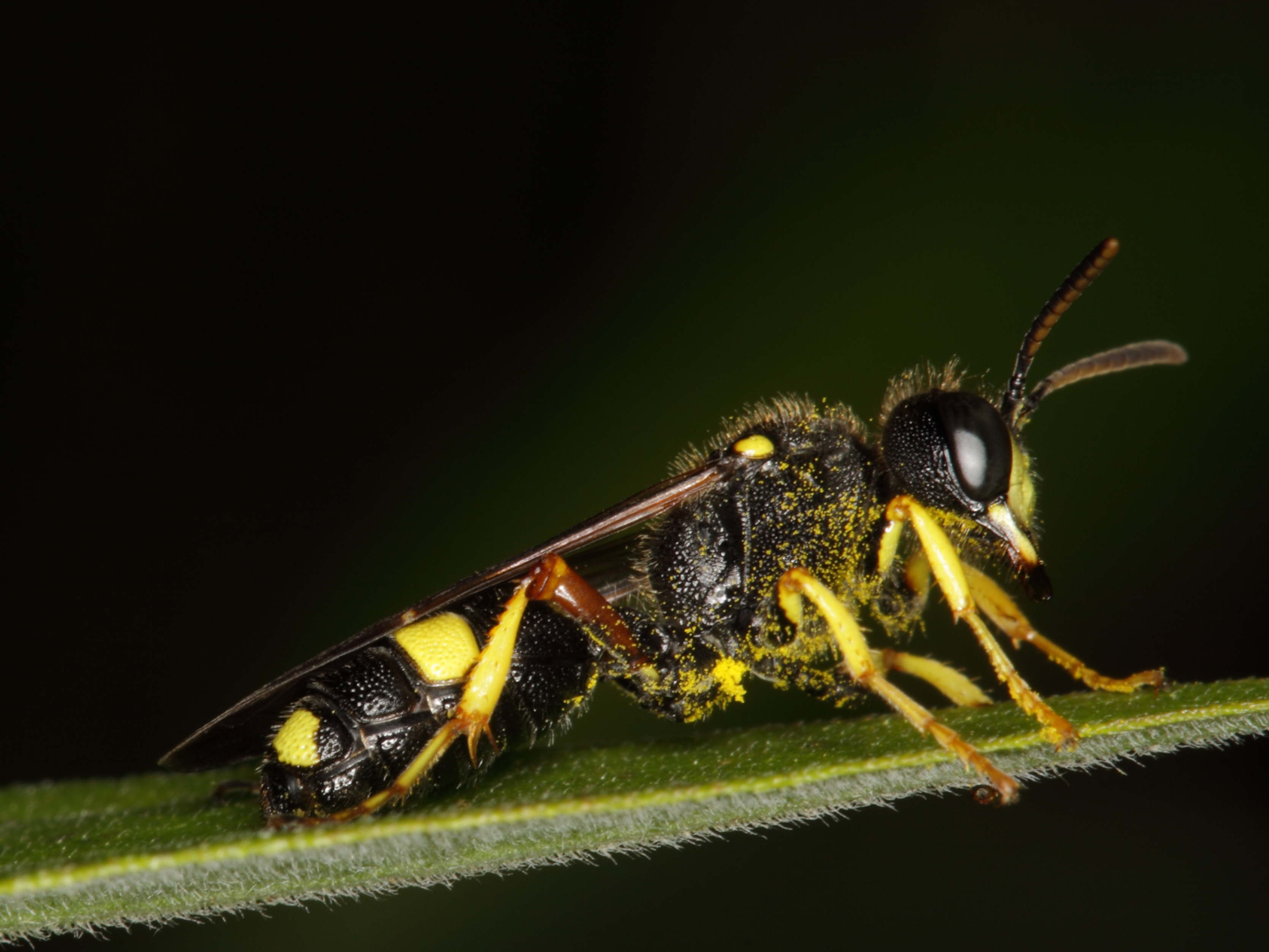 Cerceris rybyensis, Berlin, Germany